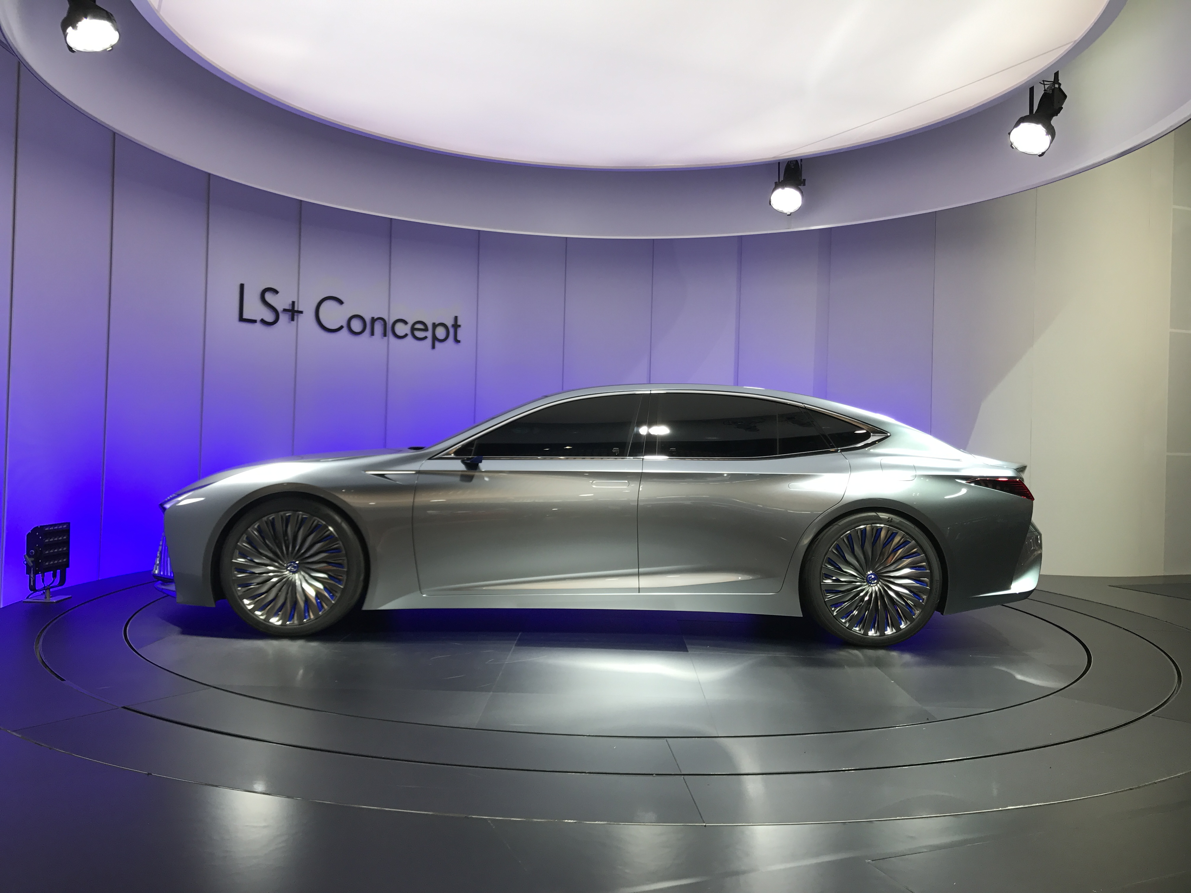 Left side of Lexus LS + concept at the 2017 Tokyo Motor Show